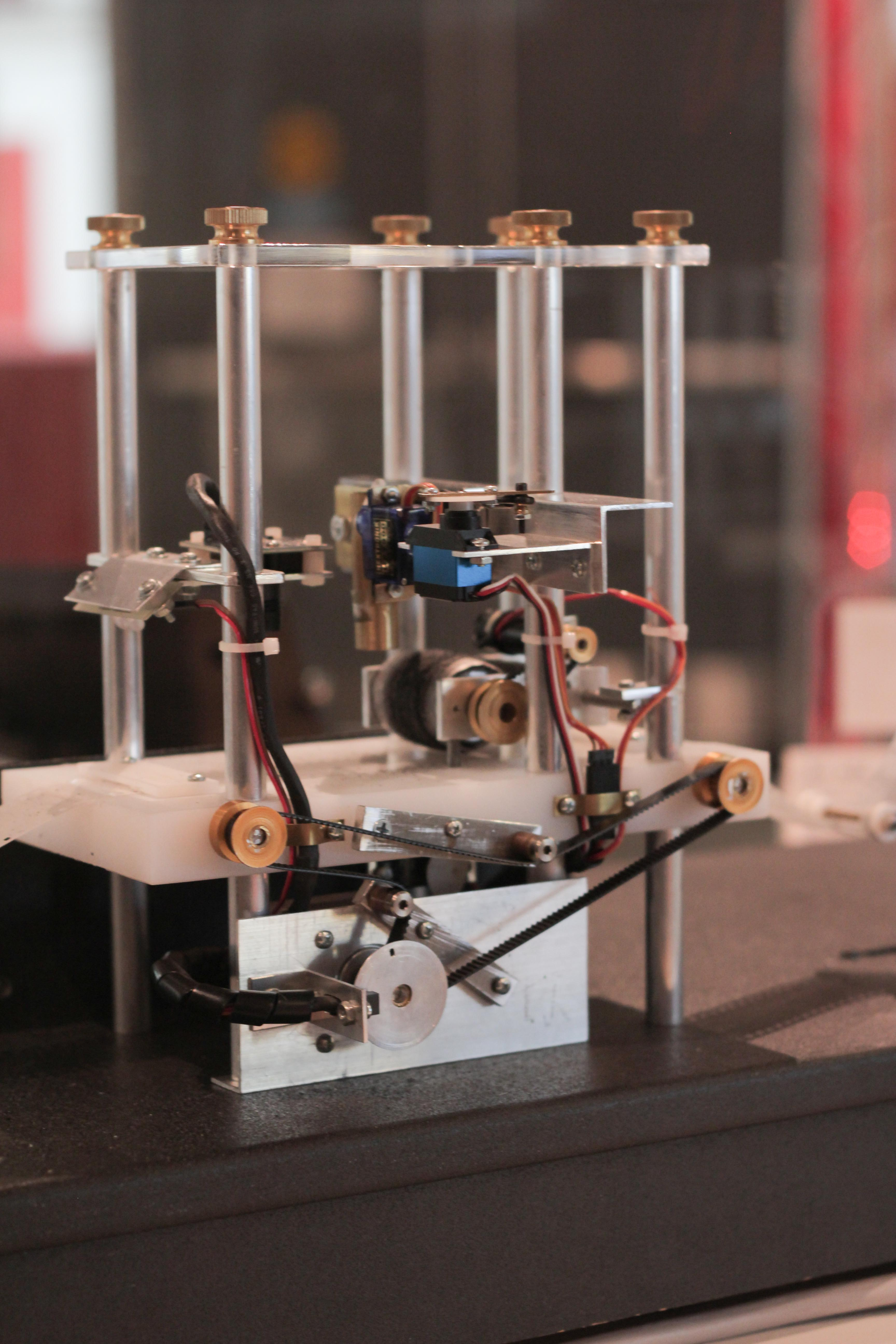 Turing Machine, reconstructed by Mike Davey as seen at Go Ask ALICE at Harvard University